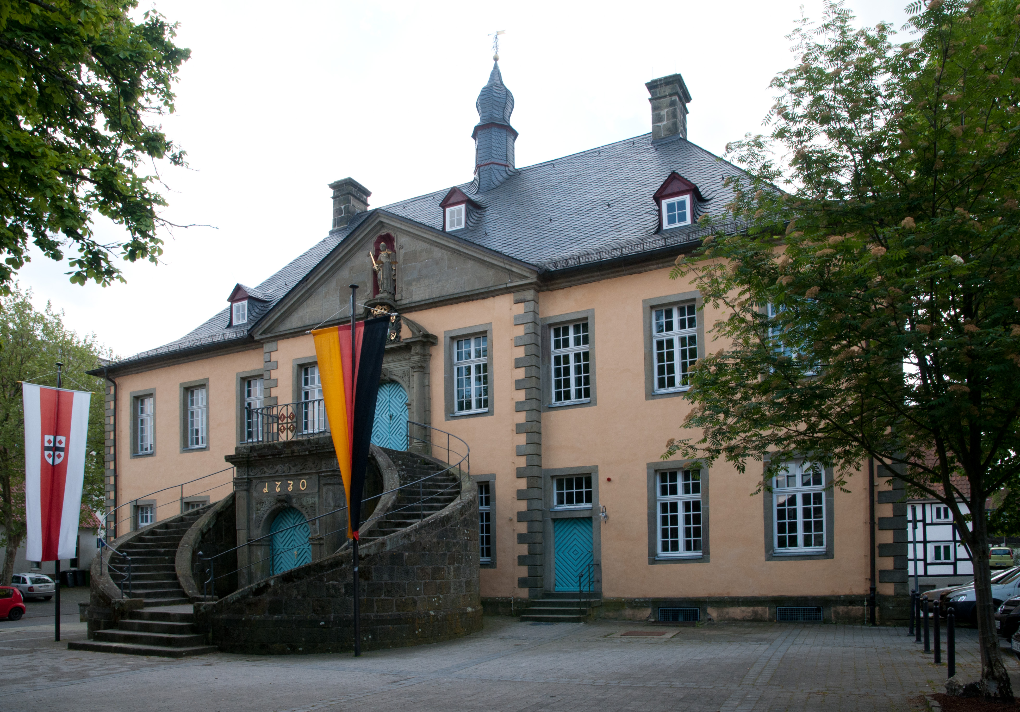 Rüthen - town hall